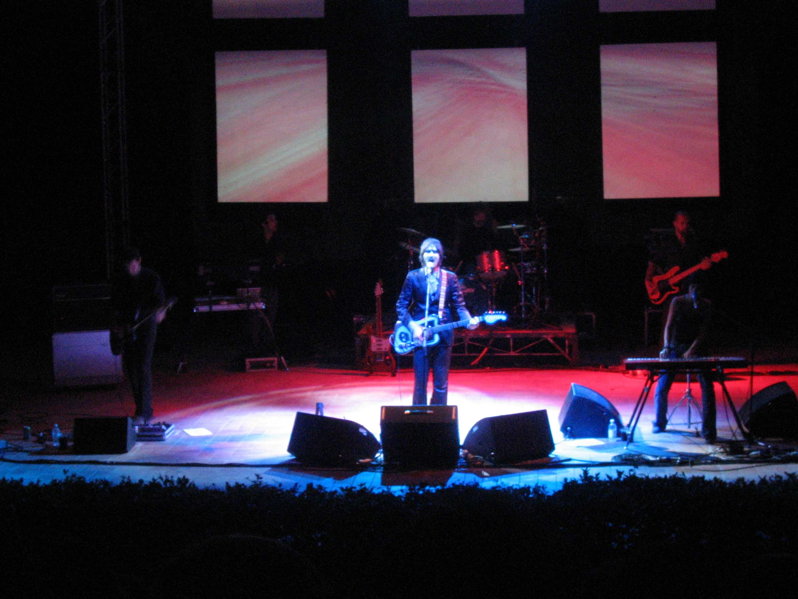 Photo taken with long exposur time and no stand, in the crowd, so slightly moved but enough for a small preview or so BAUSTELLE Performance in Villalago (Terni, Italy), 18 july 2006